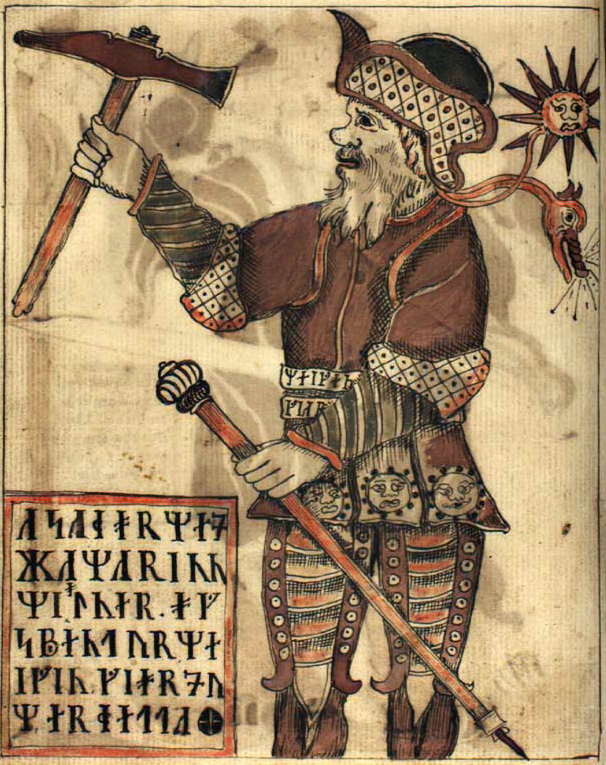 An illustration of , from an Icelandic 18th century manuscript.